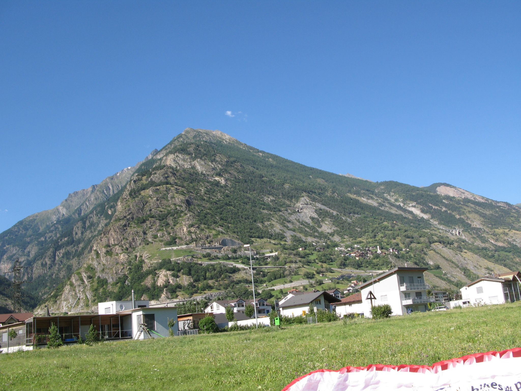 In Gampel, Switzerland looking toward the Loetschberg